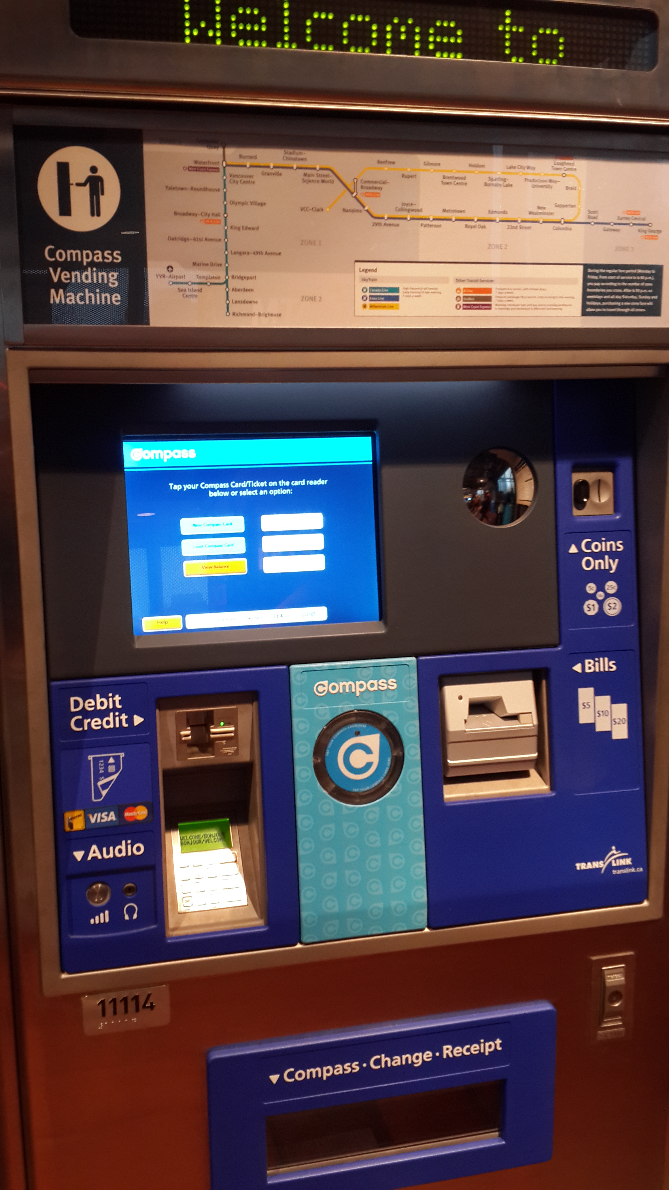 The Compass Ticket Vending Machine is at Metrotown Station